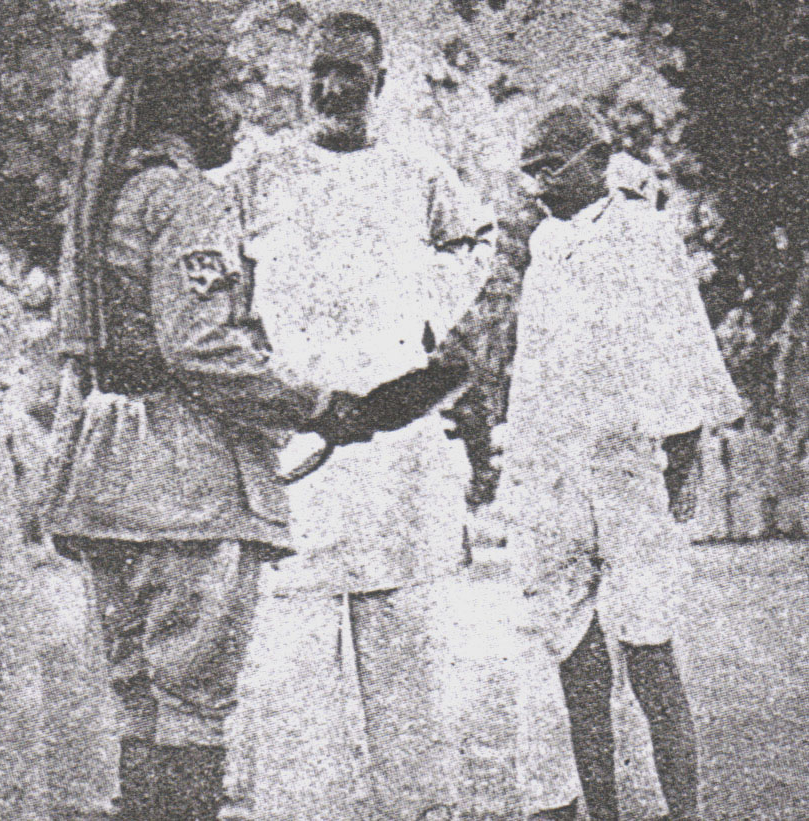 Mahatma Gandhi and Ghaffar Khan with a leader of the Khaksar Tehrik (founded by Allama Mashriqi in 1930)